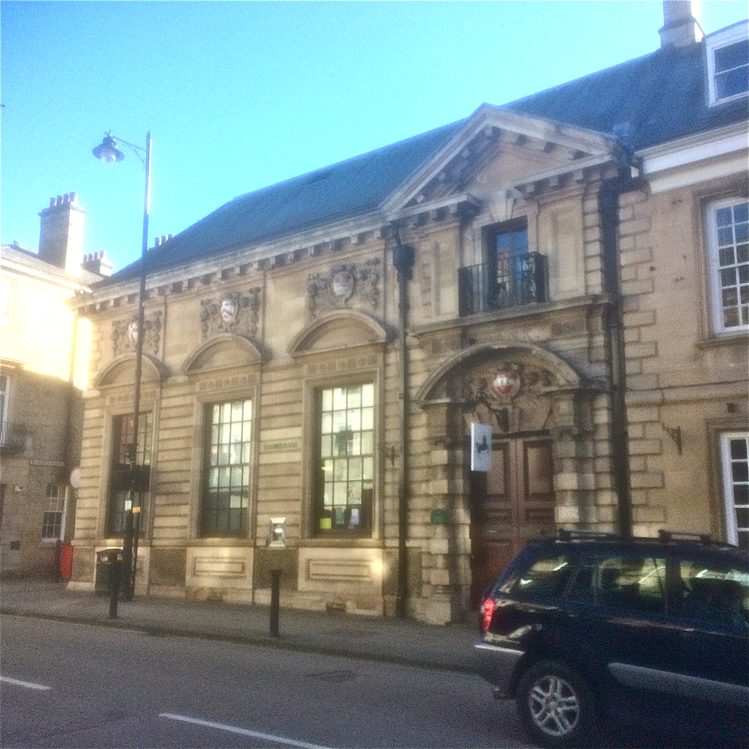 Lloyds Bank Sleaford, Lincolnshire by William Watkins 1905